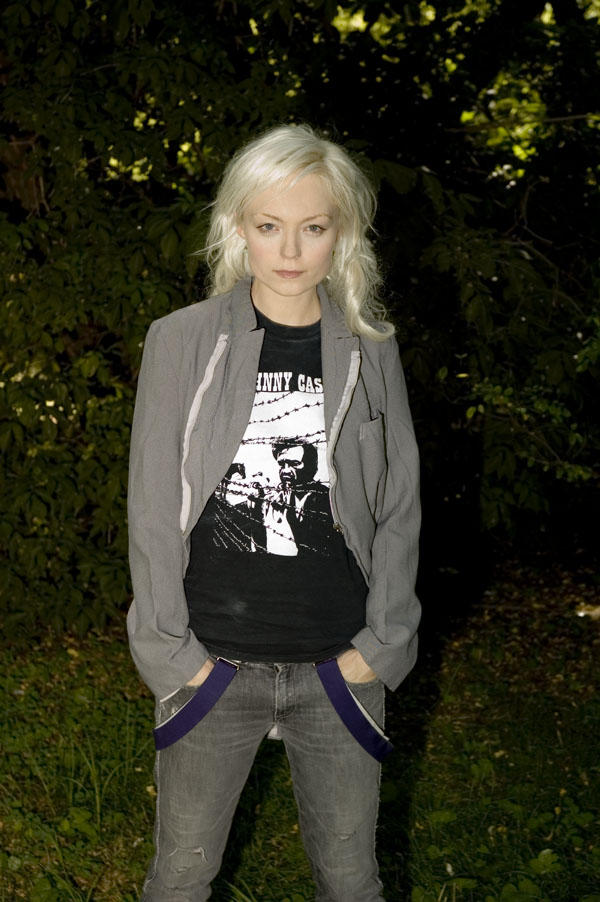 Polish vocalist Pati Yang